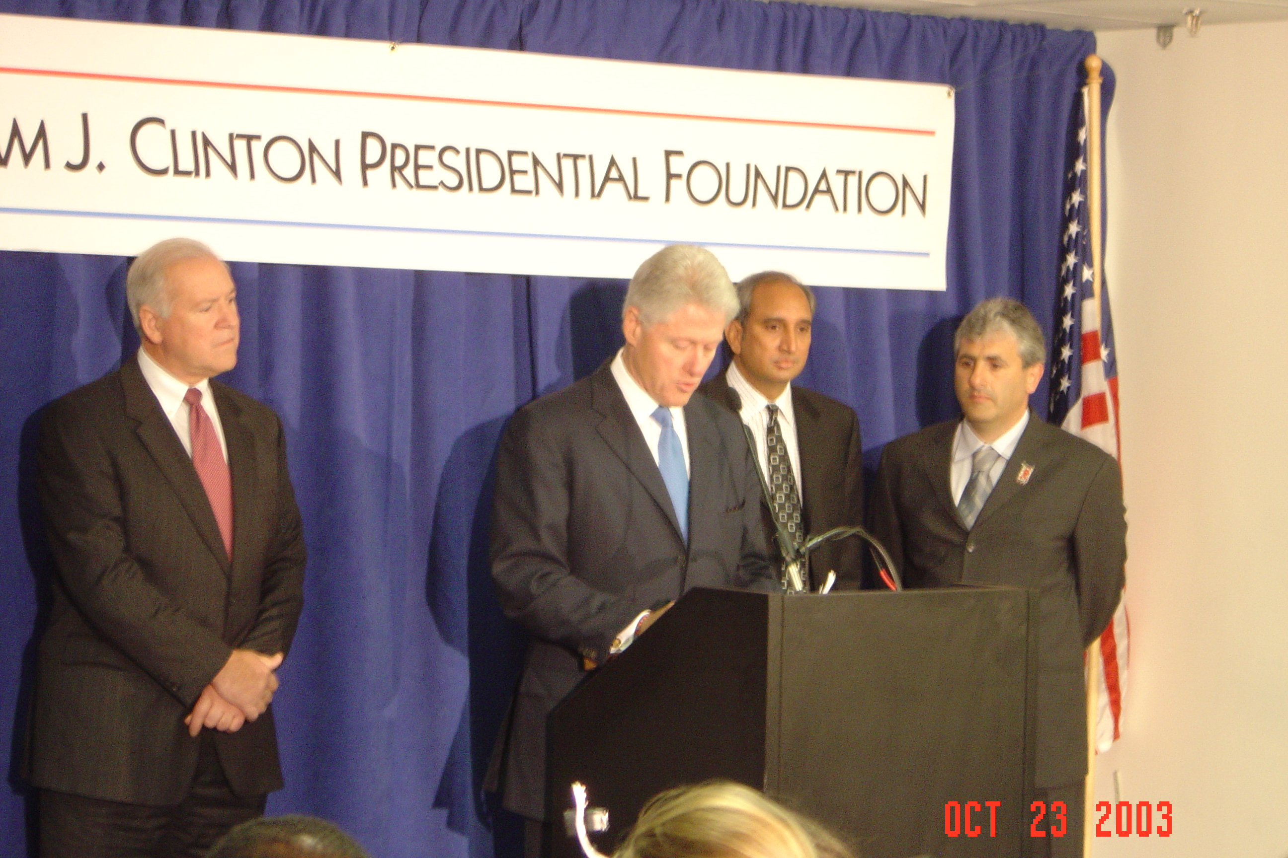 Clinton Foundation HIV low cost drugs Initiative. Matrix Chairman